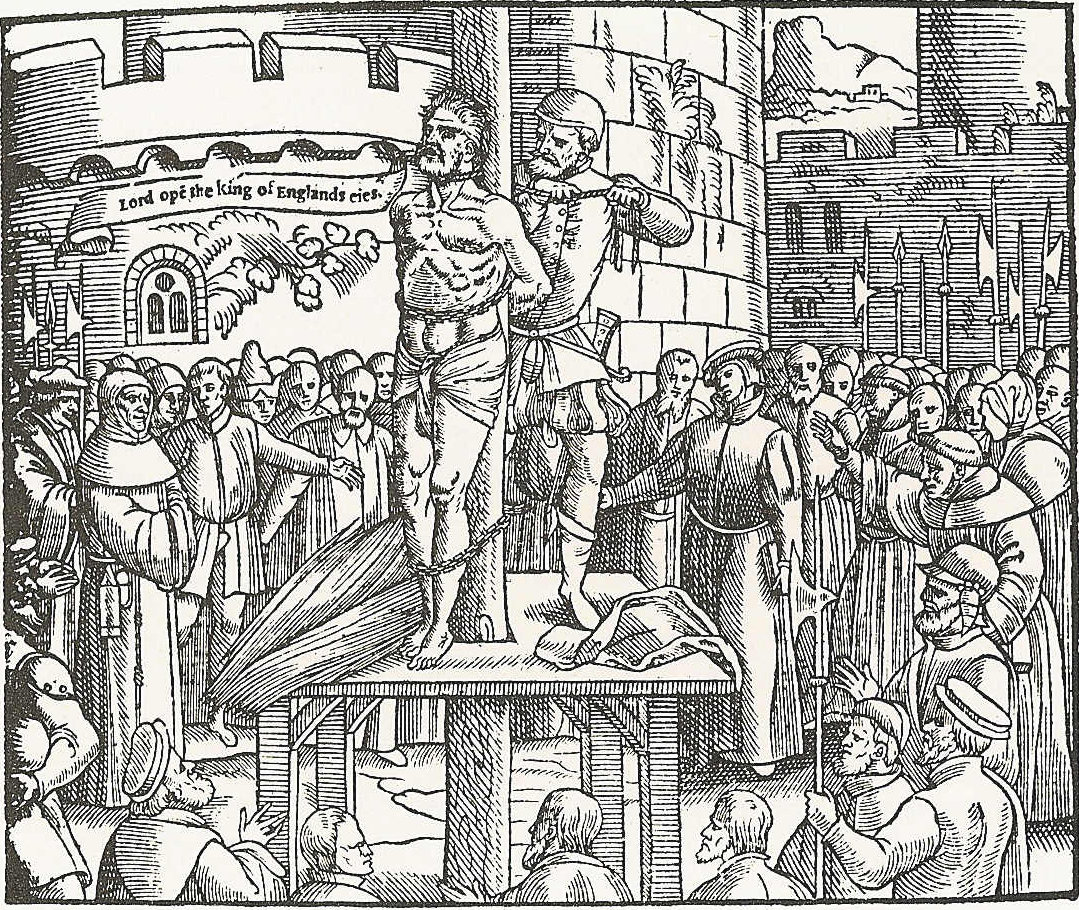 Preparations to burn the body of William Tyndale. John Foxe's Book of Martyrs.